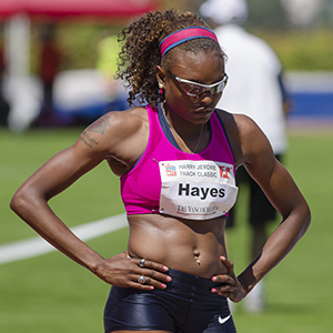 Picture of track and field runner Jernail Hayes